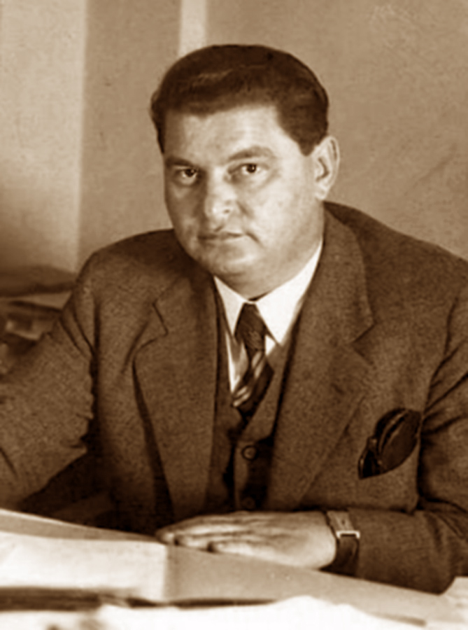 Daniel Auster - Mayor of Jerusalem in the final years of the British Mandate of Palestine, and the first mayor of Jerusalem after Israeli independence. A signatory of the Israeli Declaration of Independence.